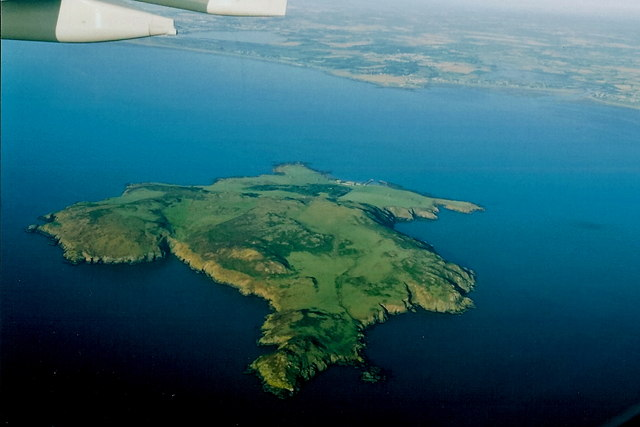 Lambay Island (Irish: Reachrainn) seen from an Aer Lingus Airbus A330 preparing to land at Dublin Airport in Ireland. The yellow headland at Portrane Desmesne called Quay juts out from the coast in the background, with the small town of Portrane in the bay to the right (north) of it.